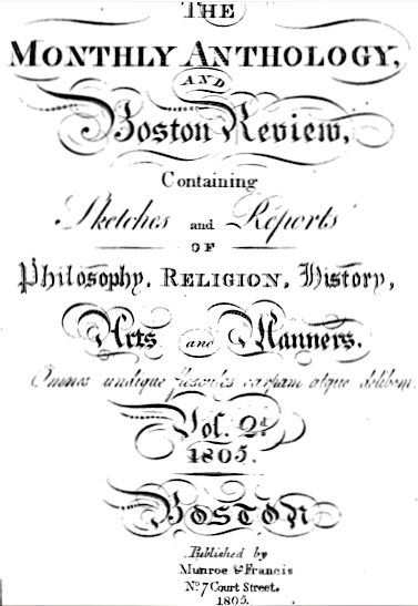 Monthly Anthology and Boston Review, 1805